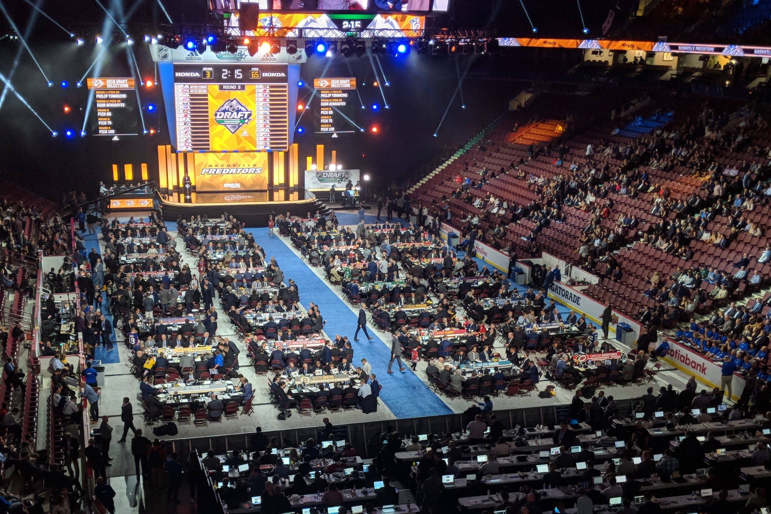 Interior of Rogers Arena prior to the Nashville Predators selecting Alexander Campbell by using the 65th overall pick of the 2019 NHL Entry Draft. June 2019.